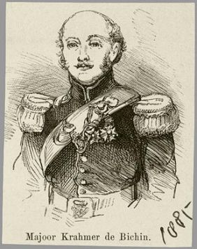 Newspaper clipping with an engraved portrait of Major Krahmer de Bichin.